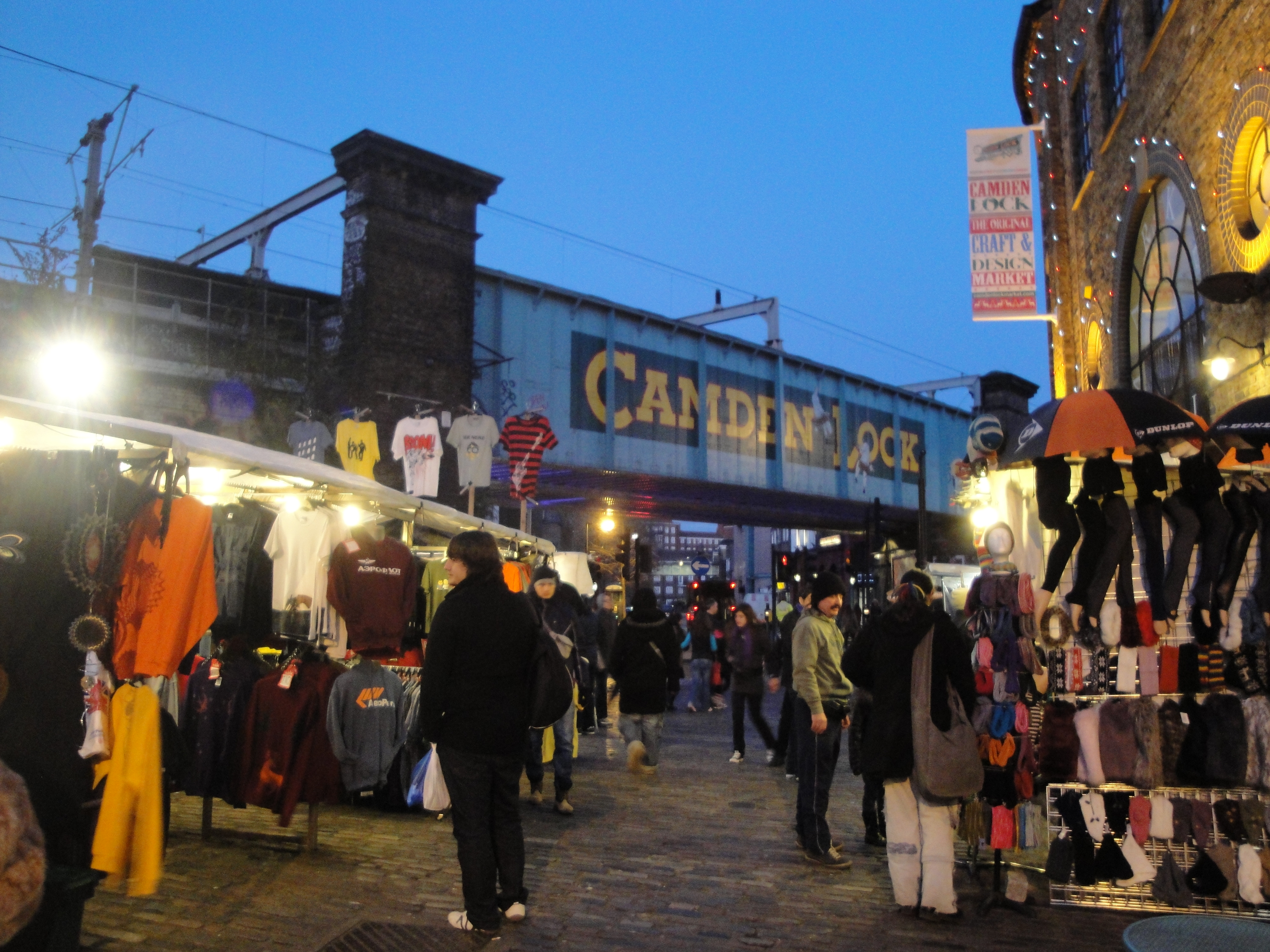 The Camden Lock railway bridge, across Chalk Farm Road, Camden (borough), London, in December 2011.